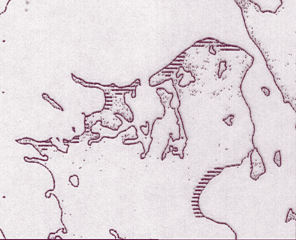 Areas of Sjælland suffering from sand drift in the late 18th century (date unknown?) as seen on an old map of Denmark